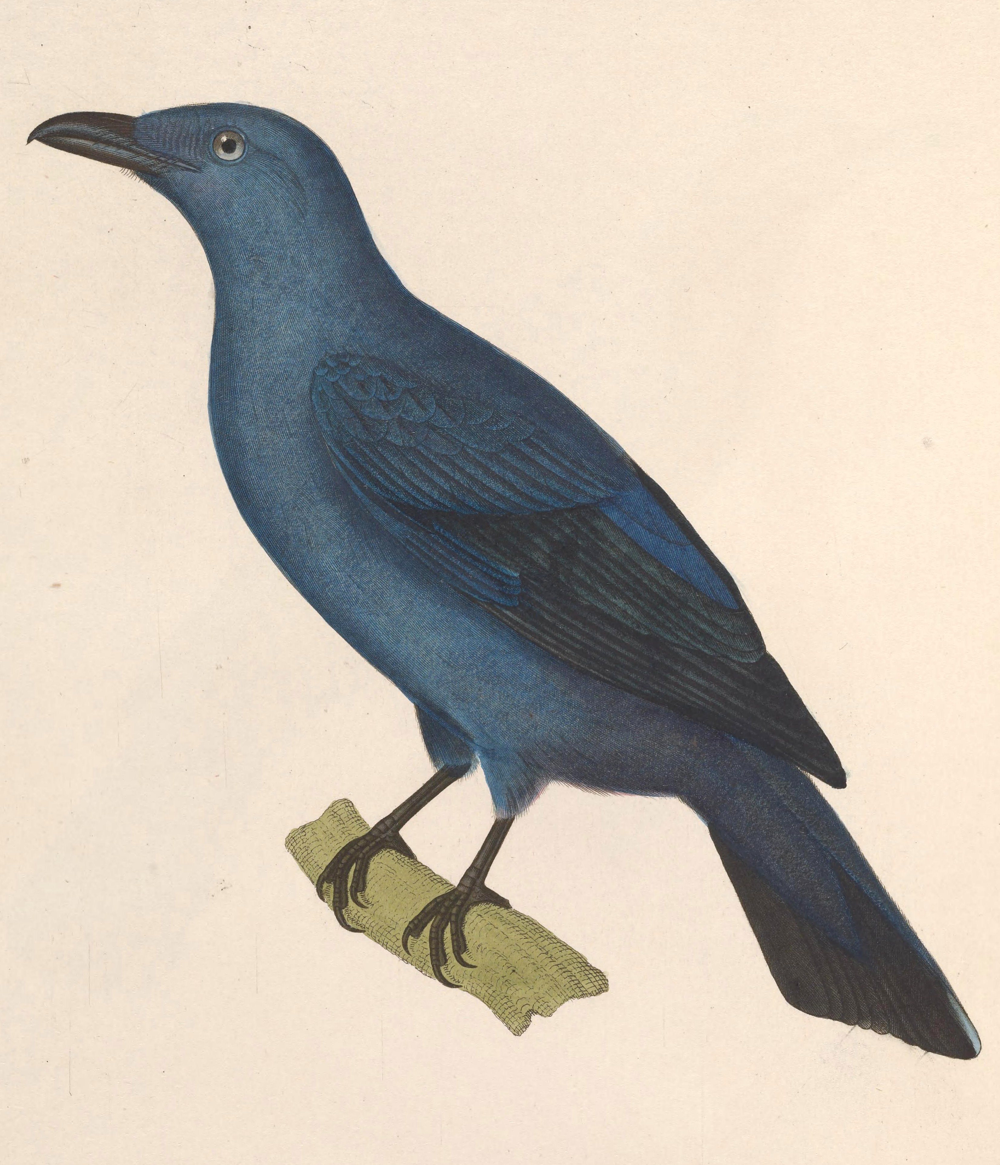 « Edolius puellus » = Irena puella (Asian Fairy-bluebird) - adult female